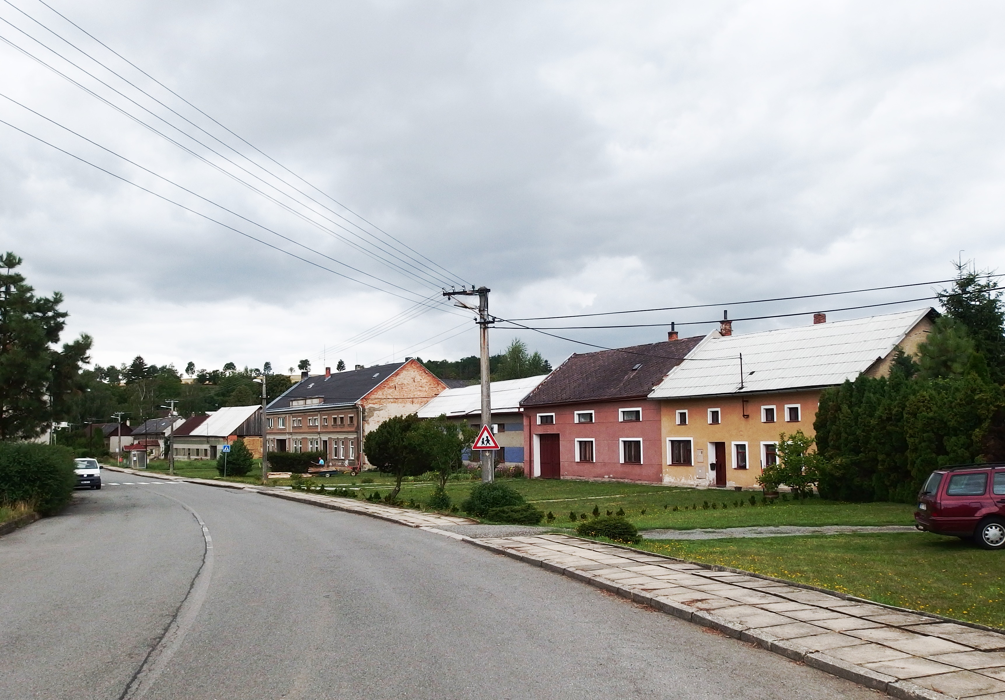 Suchonice, Olomouc District, Czech Republic.